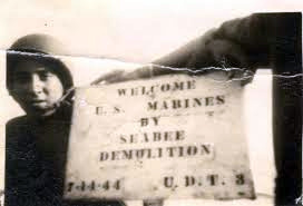 Seabee welcome sign for the Marine Corps on Guam